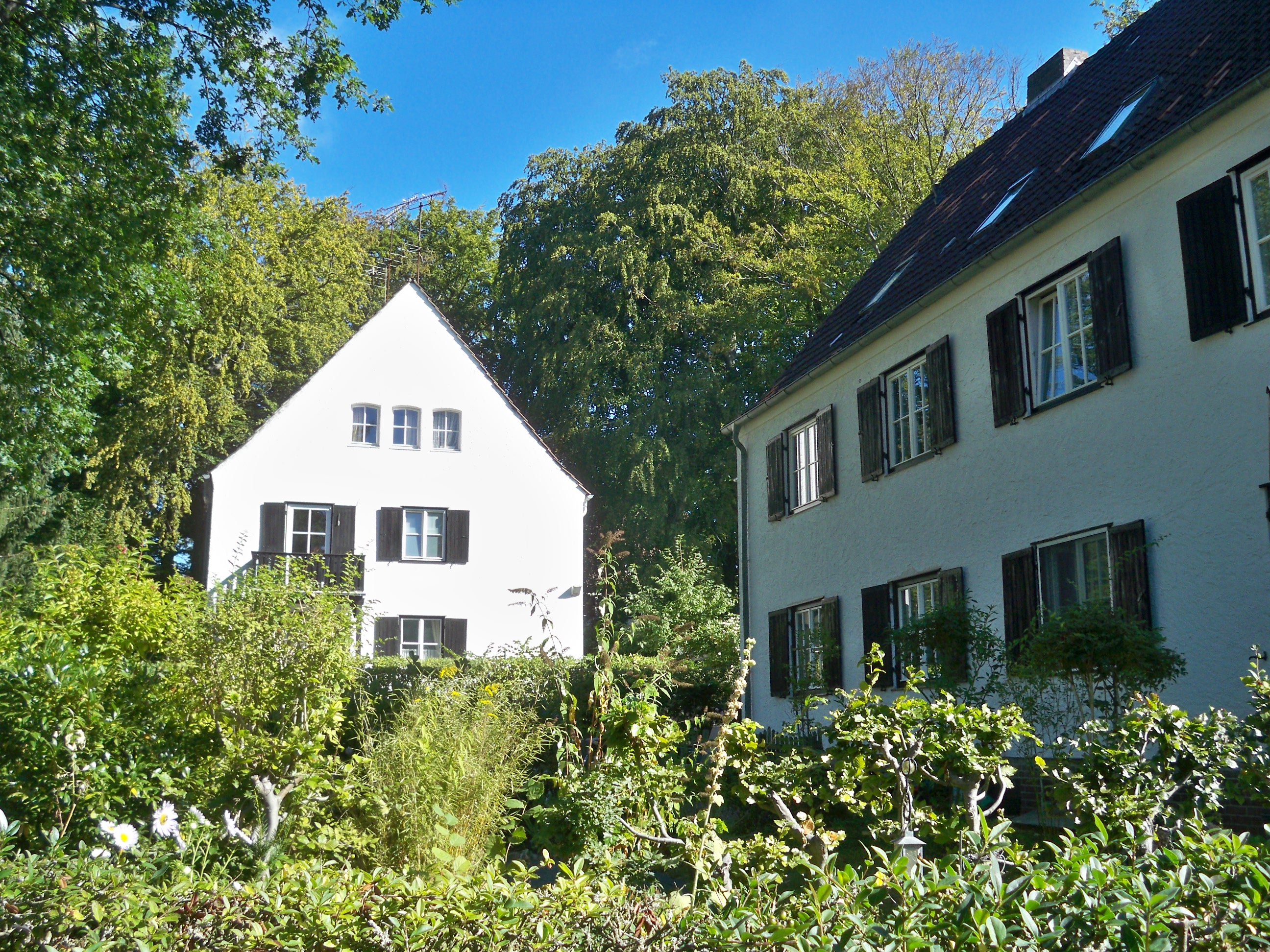 Wolfsburg, Lower Saxony, Steimker Berg, Houses